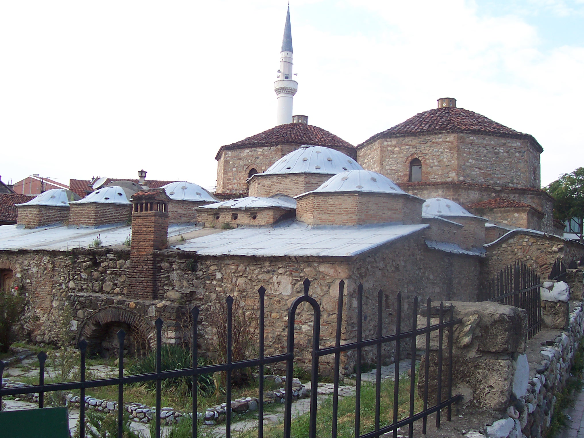 Gazi Mehmed Pasha Hammam (Prizren / Kosovo)